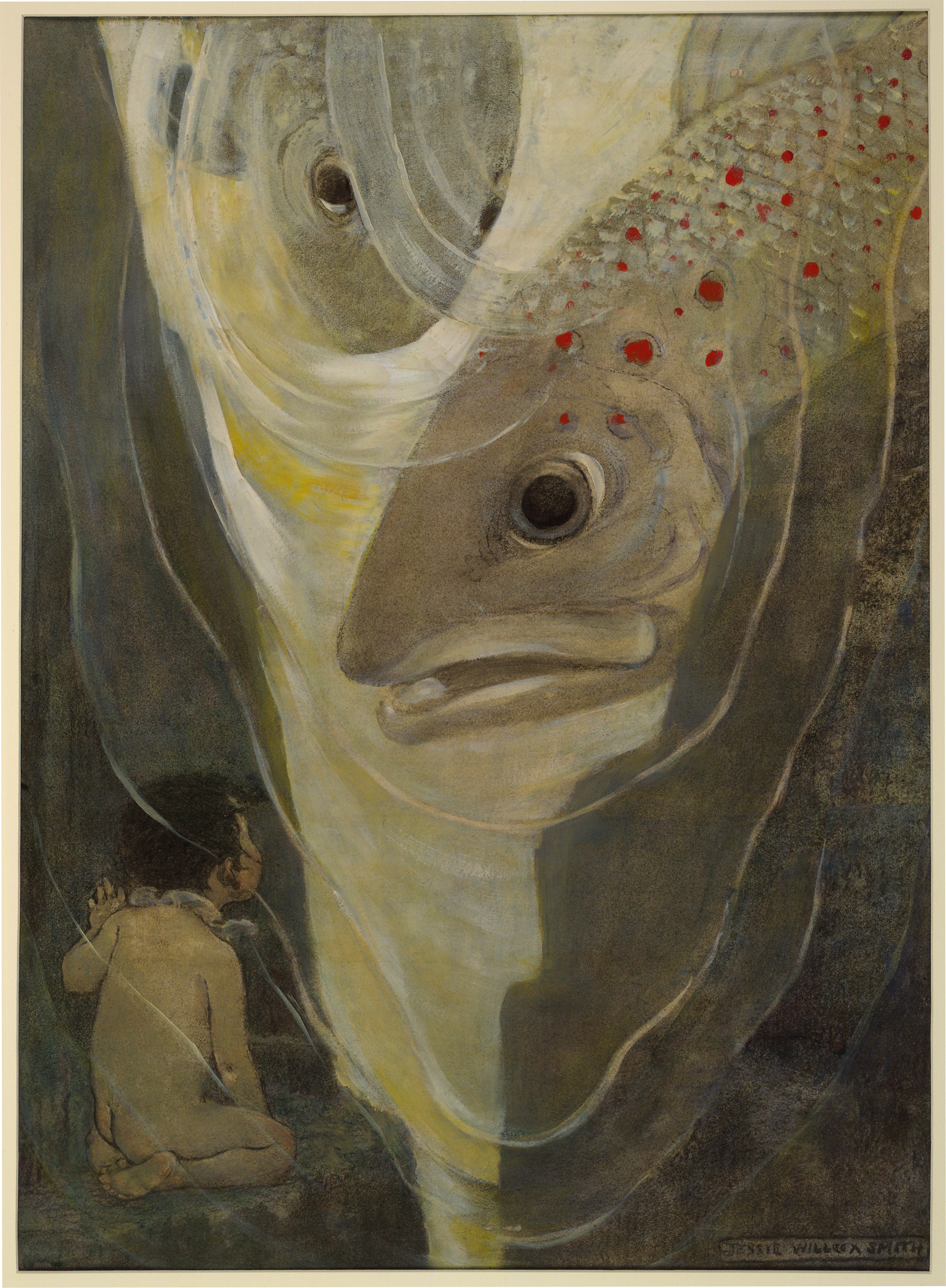 "Oh, don't hurt me! cried Tom. I only want to look at you; you are so handsome" A charcoal, watercolor, and oil painting by Jessie Willcox Smith. Published in The Water Babies by Charles Kingsley. New York : Dodd, Mead & Co., 1916, p. 140.